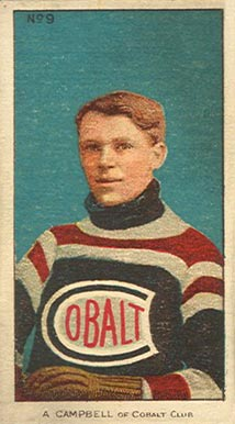 Canadian Ice hockey player Angus Campbell of the Cobalt Silver Kings.